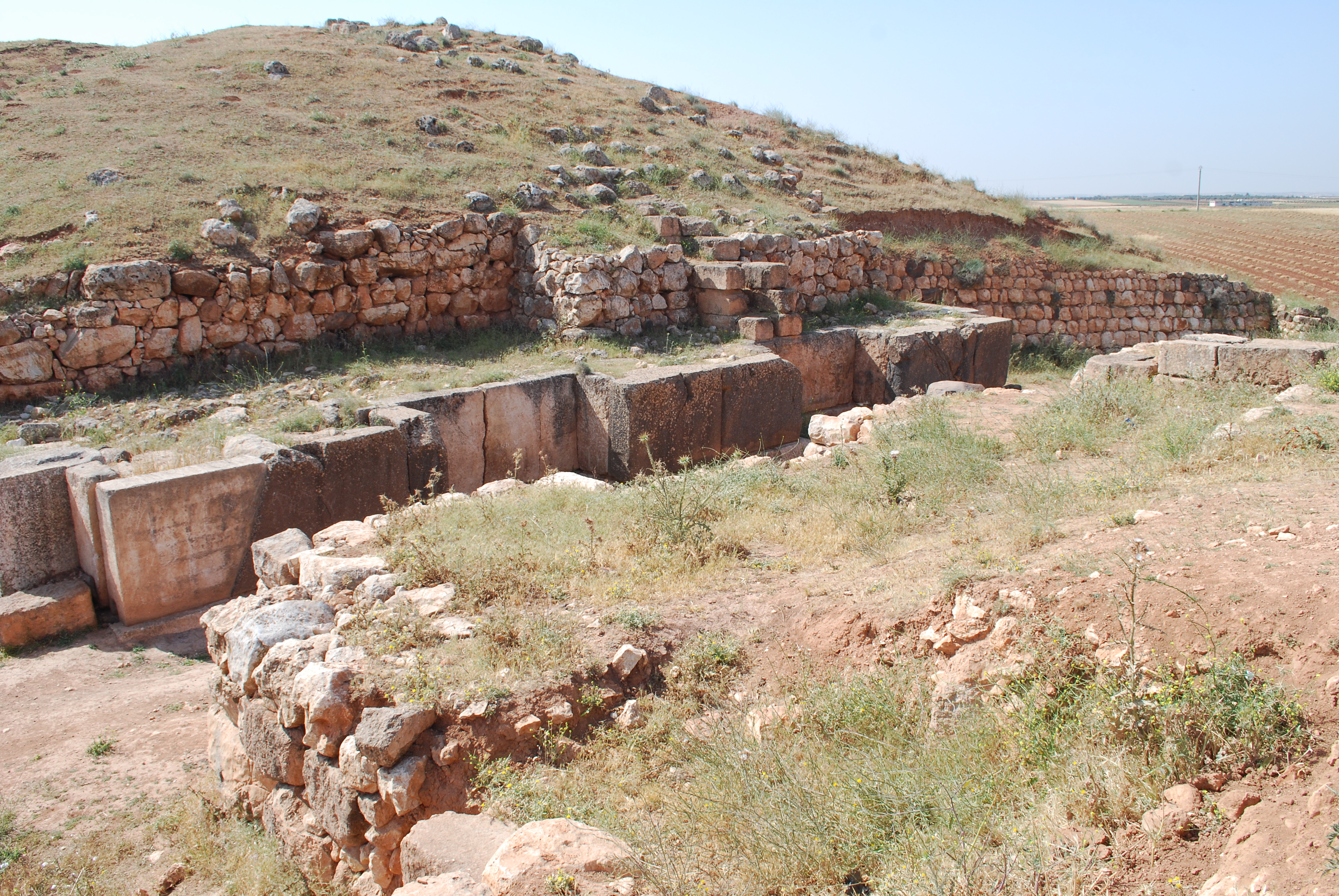 South-west gate, Ebla in 2004